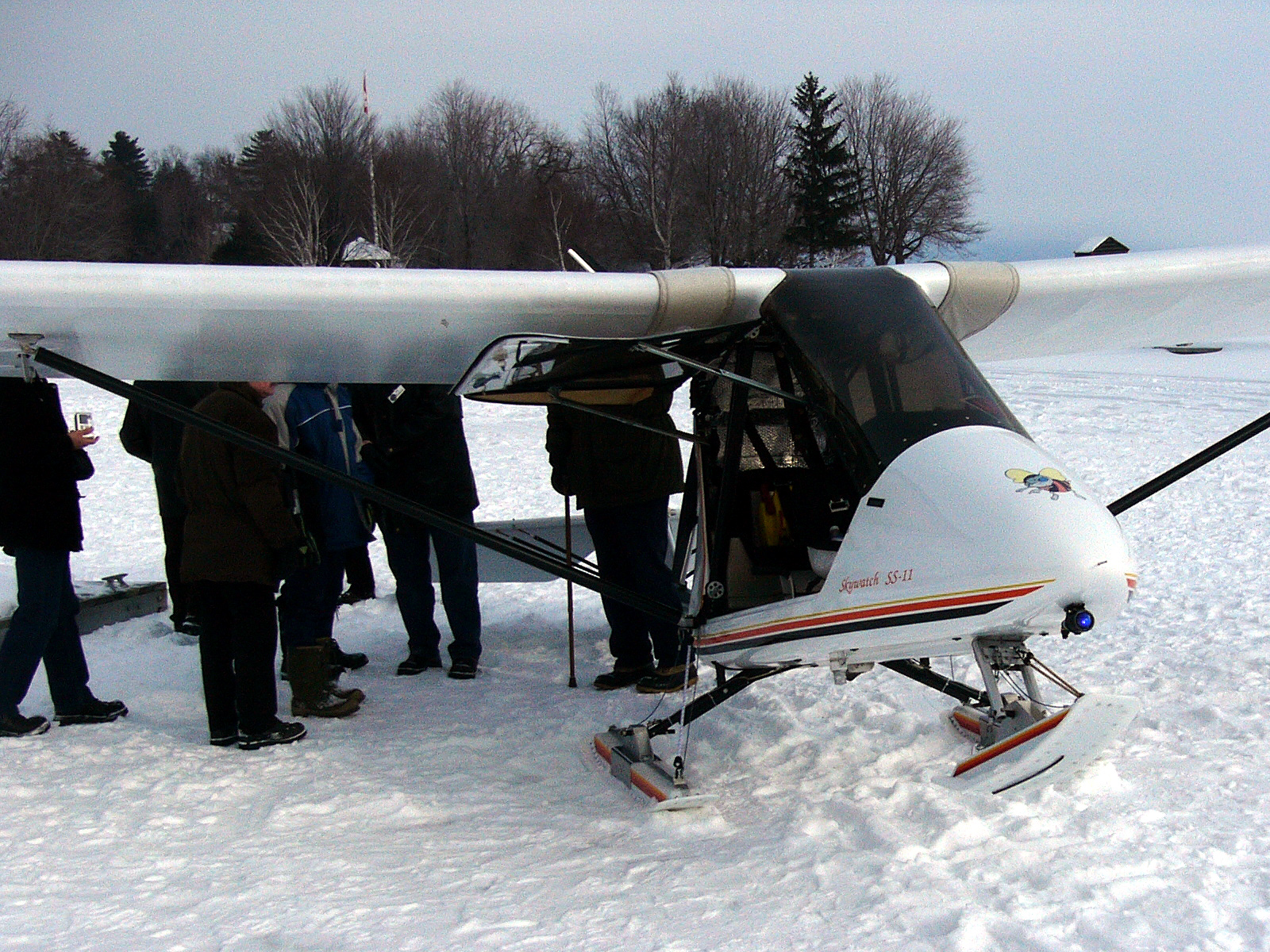 Freedom Lite Skywatch SS-11 on skis at the Montebello, Quebec, Canada Fly-in